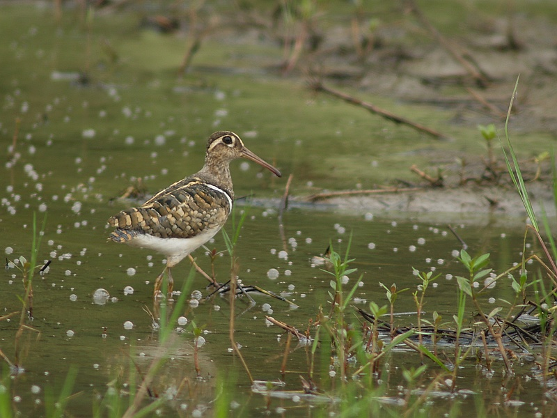 Male, Greater Painted-snipe（彩鷸）, Taoyuan County, Taiwan.